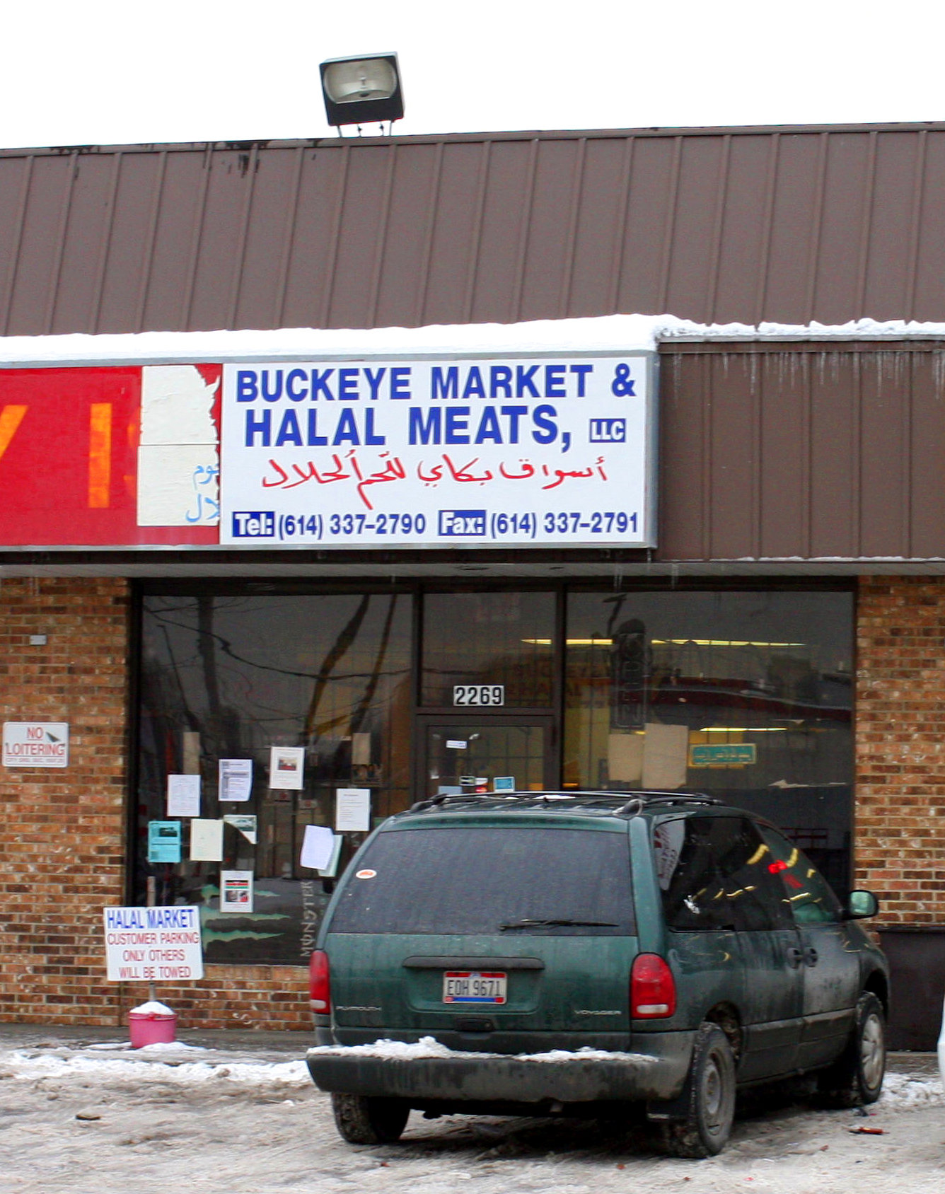 The Somali-owned Buckeye Market and Halal Meats store on Morse Road in Columbus, Ohio.